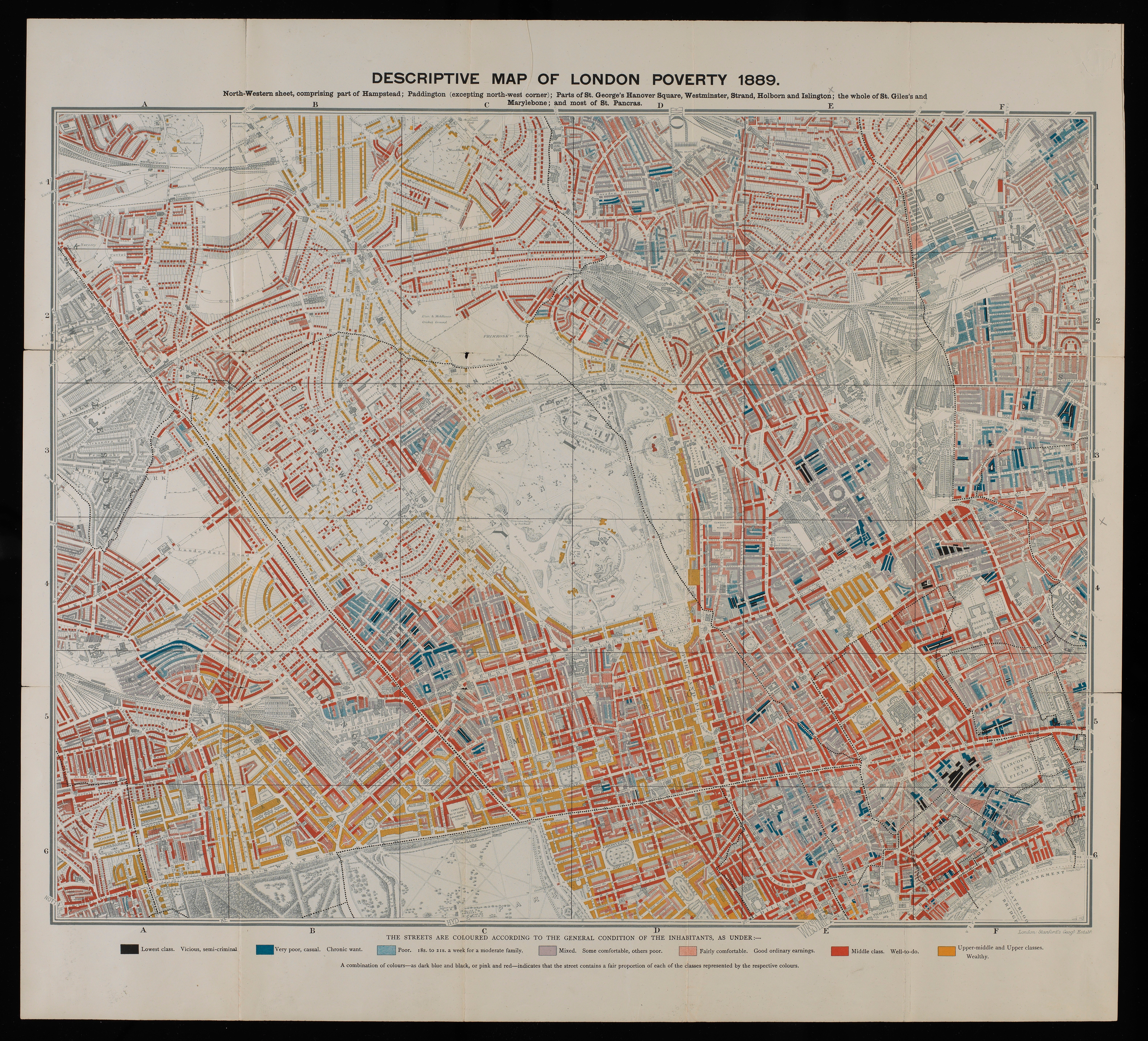 North-Western sheet, comprising part of Hampsted; Paddington (excepting north-west corner); Parts of St. George's Hanover Square, Westminster, Strand, Holborn and Islington; the whote of St. Giles's and Marylebone; and most of St. Pancras. Charles Booth, Life and labour of the people in London. General Collections Keywords: Social Conditions; Charles Booth; LABOUR; Poverty; Population Characteristics